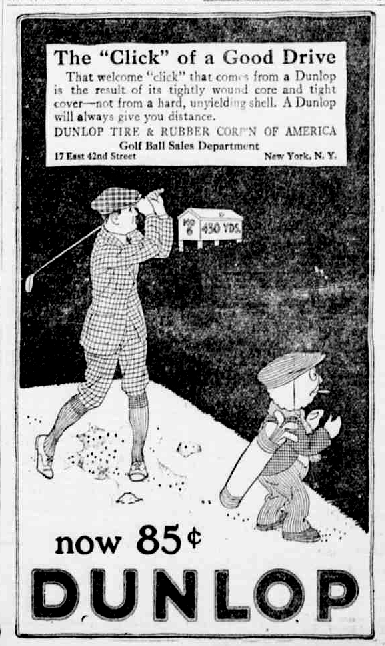 1922 newspaper ad for Dunlop golf balls, from the USA